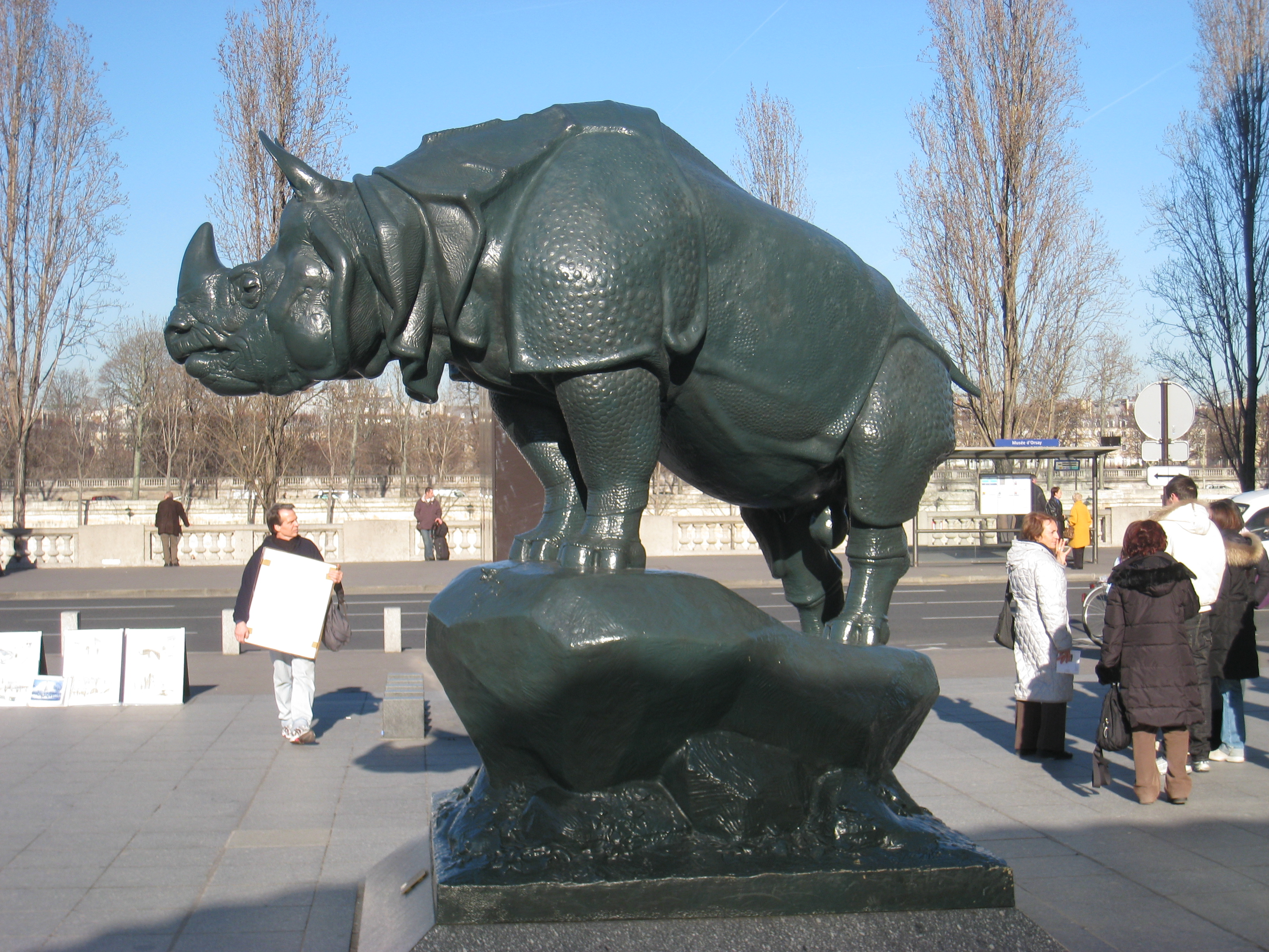 Alfred Jacquemart - Rhinocéros - parvis du Musée d'Orsay, Paris, France. This statue is old enough so that copyright (if any) has long since expired. Rhinocéros was commissioned for the 1878 Exposition Universelle and placed in the garden of the Palais du Trocadéro. When the Palais was demolished the sculpture was located c.1935 to 1985 at Porte de Saint-Cloud, Paris. In 1986 it was assigned to the Musee d'Orsay, Paris, restored and placed on display in the forecourt. Sources: Horswell, Jane (1971), Bronze sculpture of Les Animaliers, references and price guide, Clopton, England: Antique Collectors' Club, p.292 Musee d'Orsay online catalogue, retrieved 21 Jan 2014.